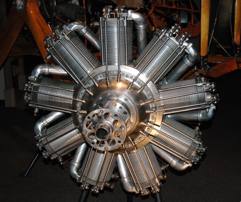 Bentley BR2 rotary engine (National Air and Space Museum, Washington, D.C.)